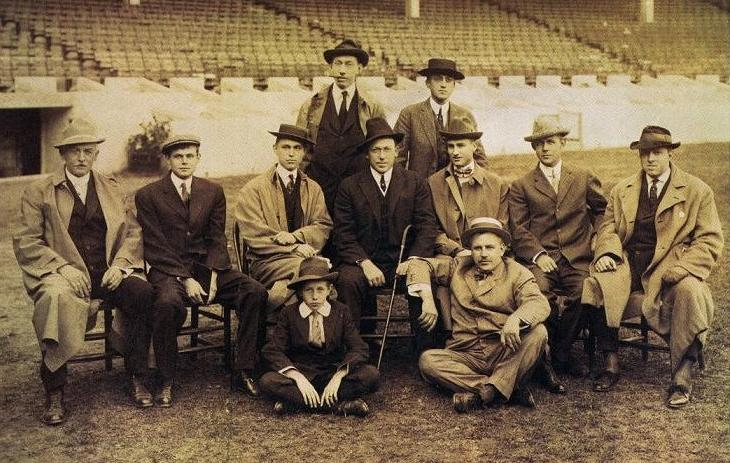 Sportsjournalists